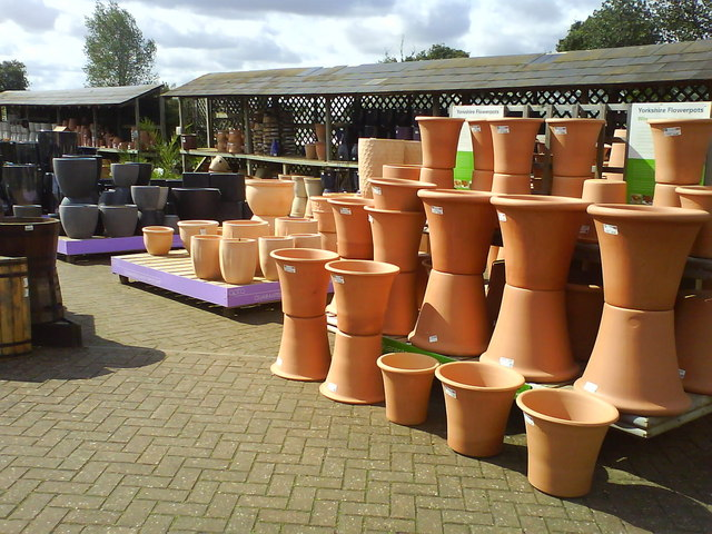 Pots in the Buckingham Garden Centre